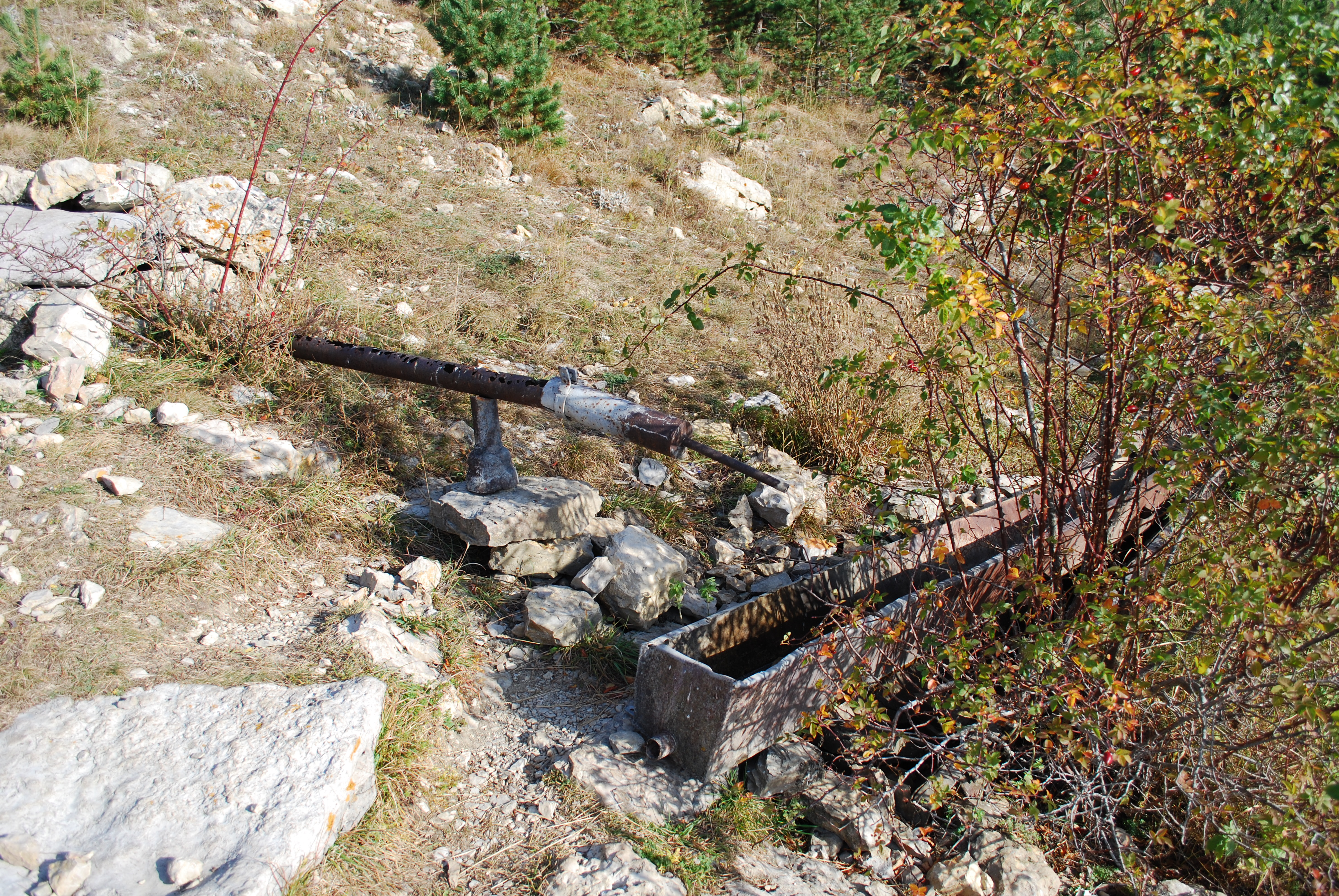 The spring on the northen slope of mount Kemal-Egerek (Crimea).